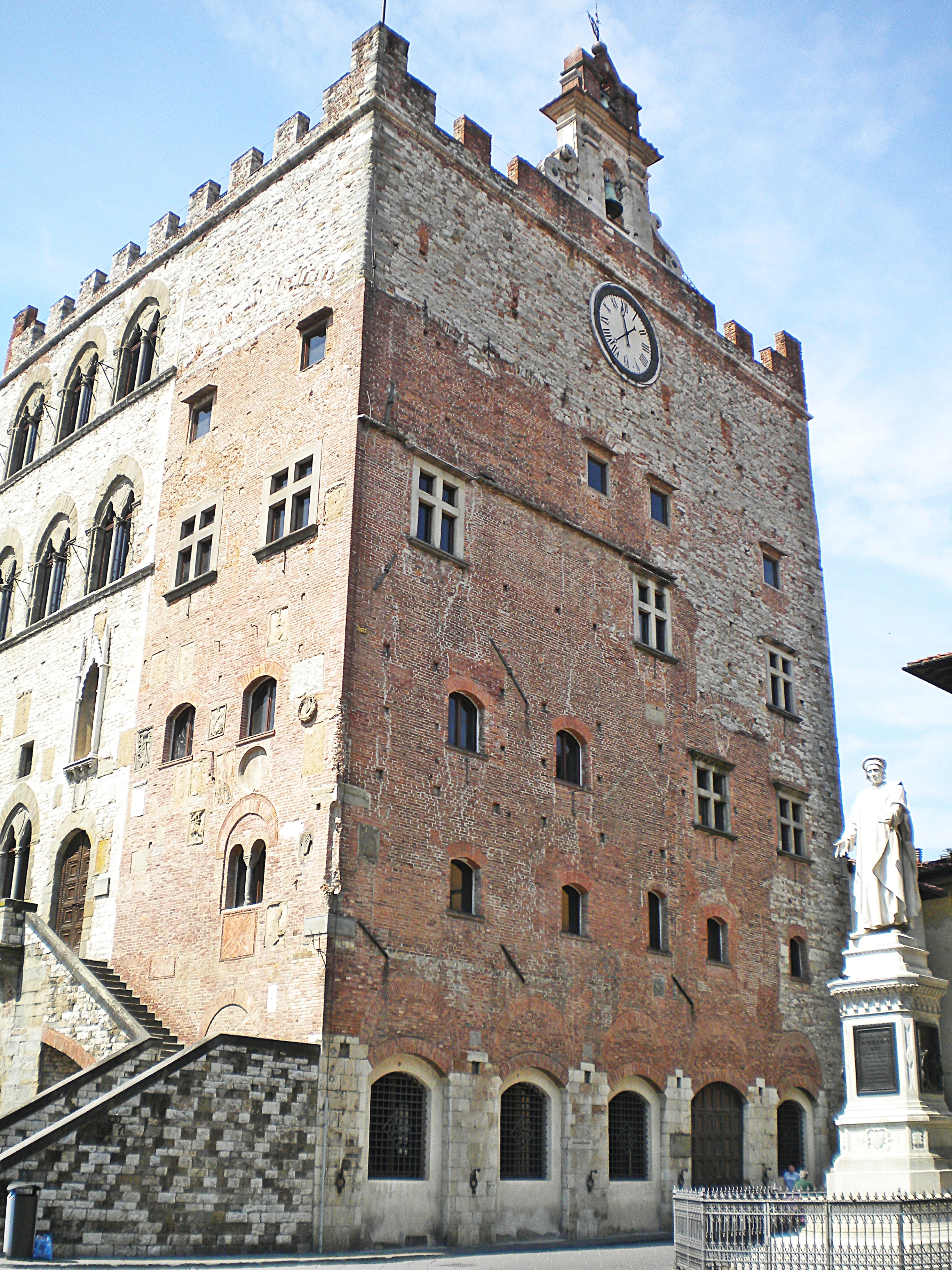 facade